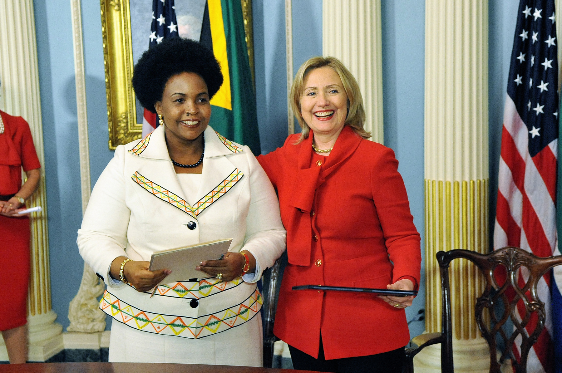 U.S. Secretary of State Hillary Rodham Clinton smiles with South African Minister Maite Nkoana-Mashabane after signing the PEPFAR Partnership Framework Agreement with in the Treaty Room at the U.S. Department of State in Washington, D.C., on December 14, 2010. [State Department photo/ Public Domain]